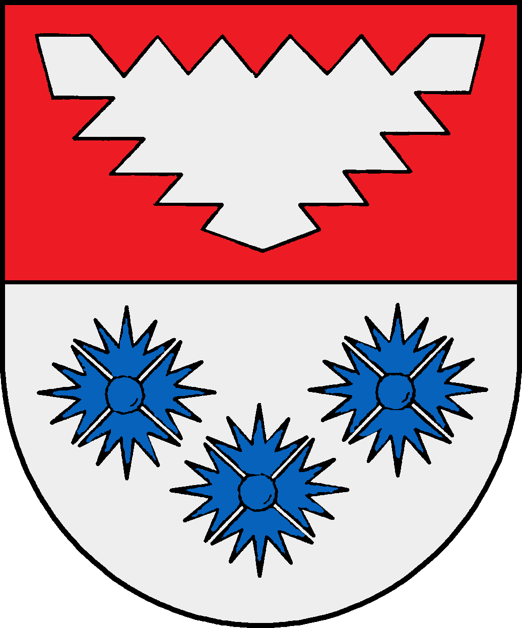 Coat of arms of the municipality Stoltenberg in Schleswig-Holstein, Germany.